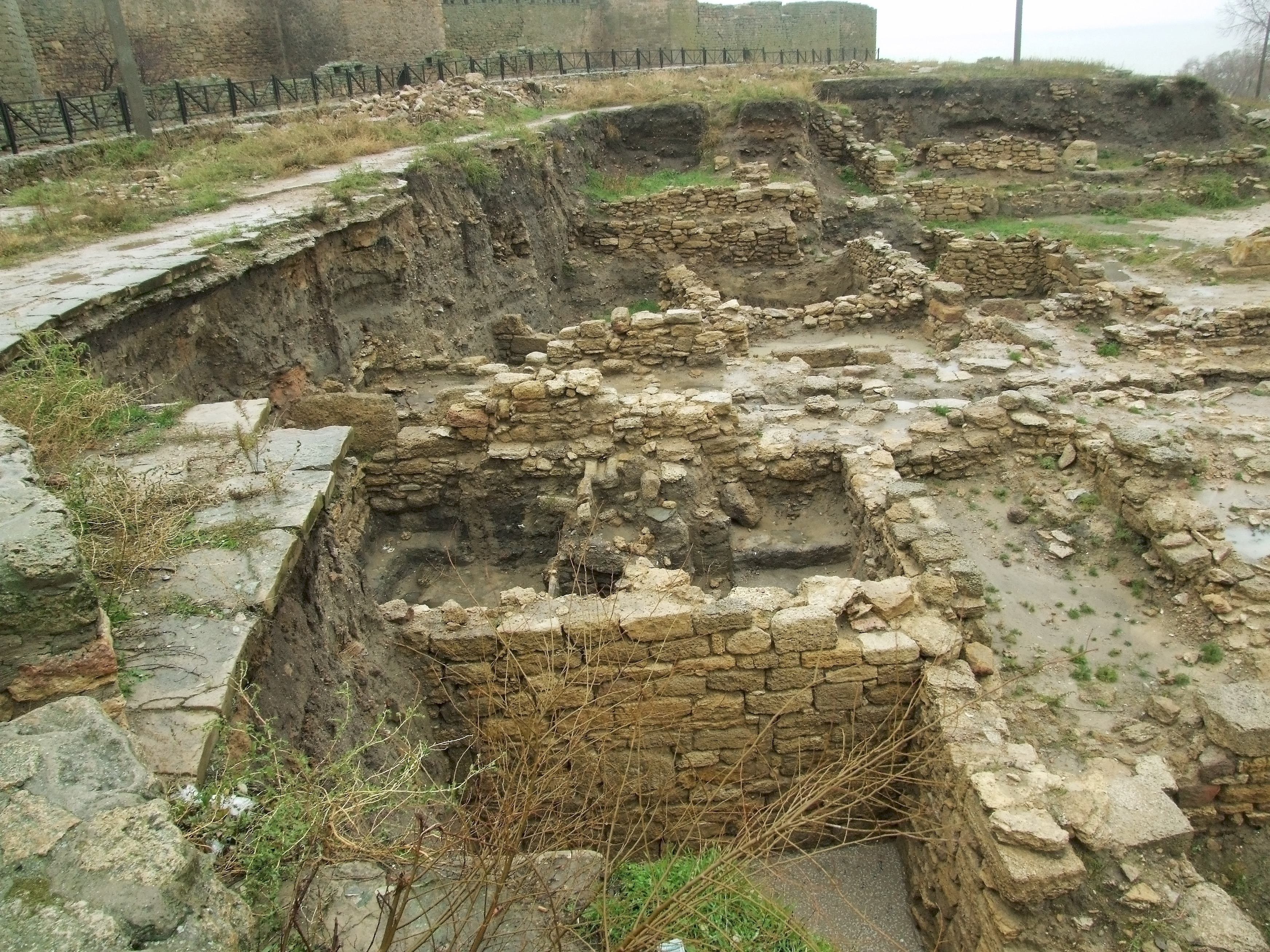 Ruins of Tyras in city of Bilhorod-Dnistrovskyi, Bilhorod-Dnistrovskyi Raion, Odessa Oblast, Ukraine